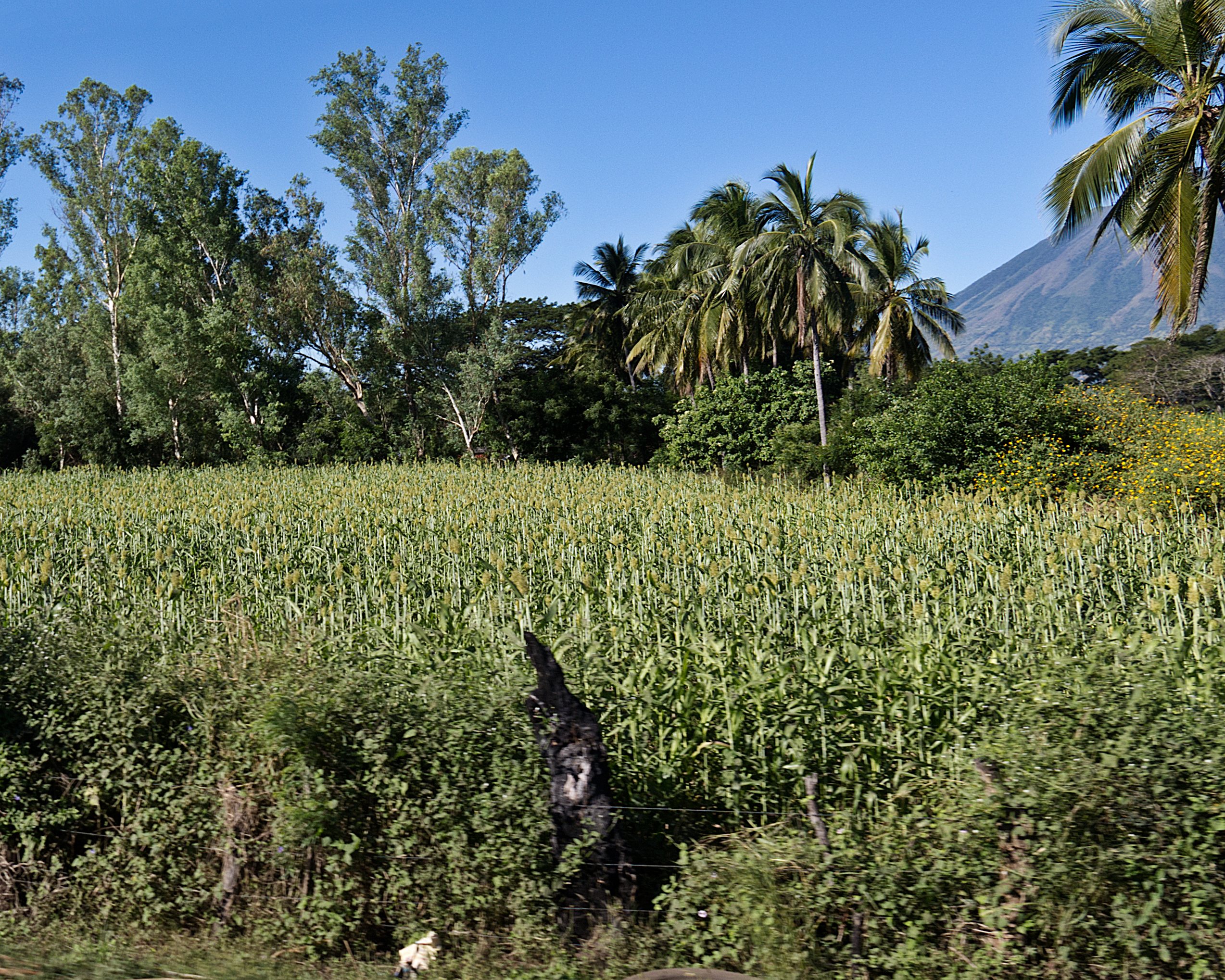 A field of Sorghum, seen from the Highway, in El Salvador. The volcano Chaparrastique can be seen in the distance.